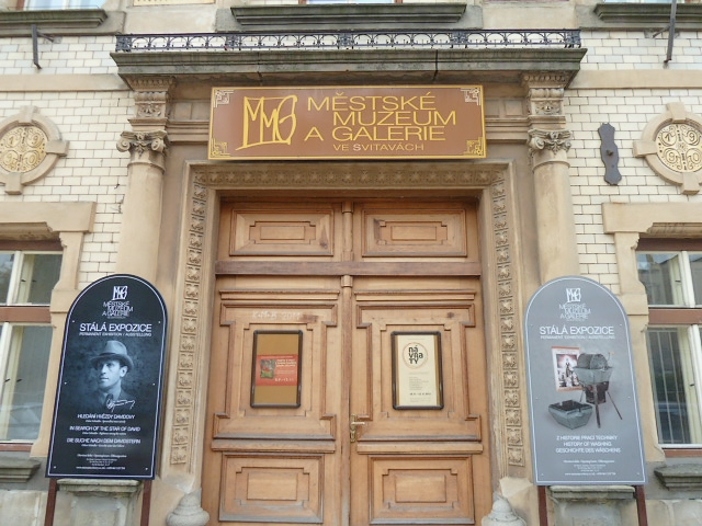 City museum and gallery Svitavy (Czech Republic, Pardubice Region) - main entrance